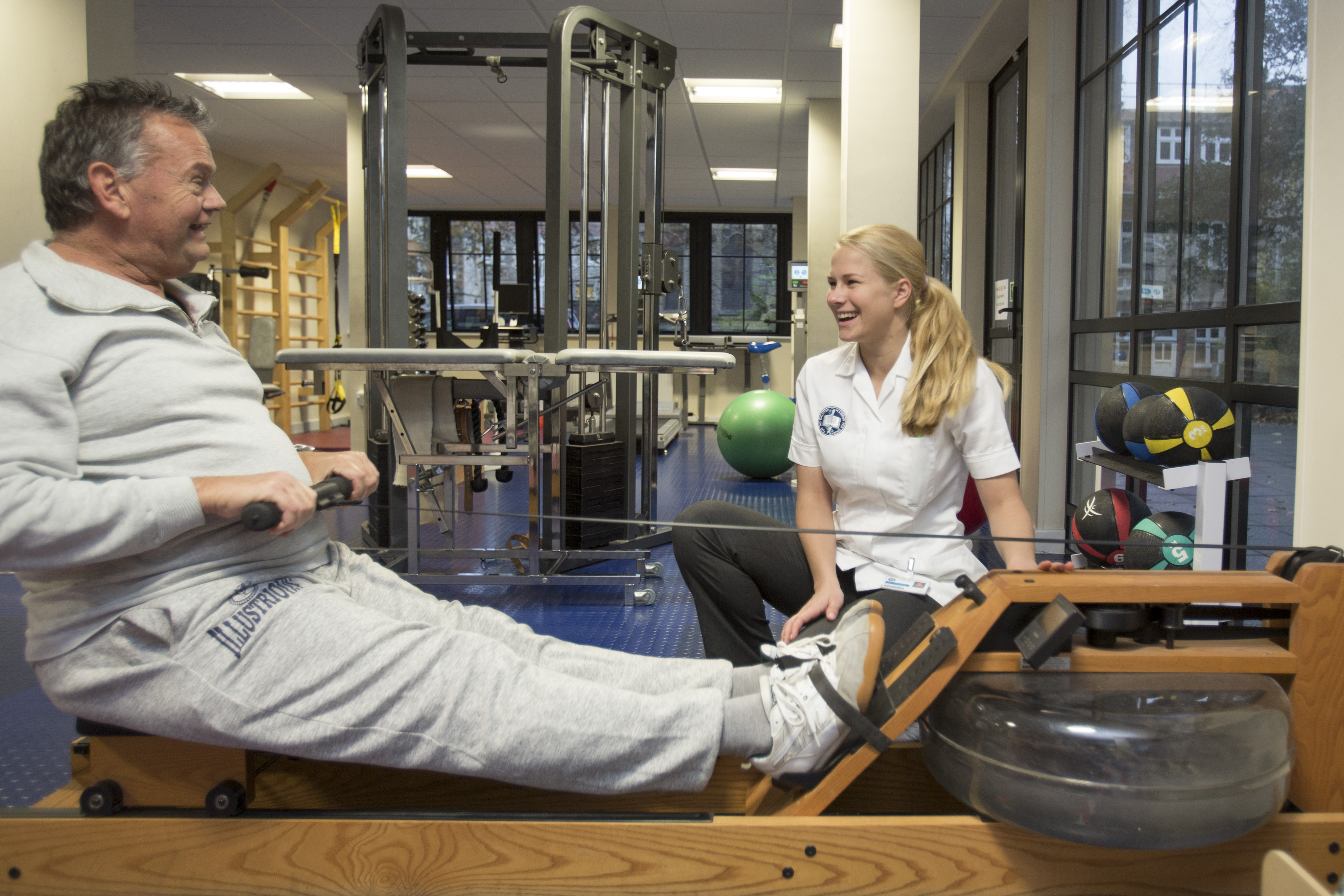 Photo of the inside of the AECC's exercise centre